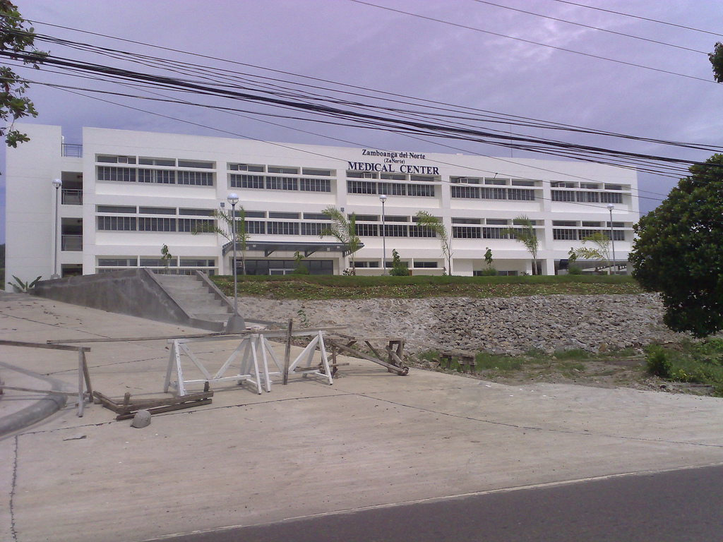 The Zamboanga del Norte (ZANORTE) Medical Center as seen in highway in Sicayab Dipolog City, Philippines.